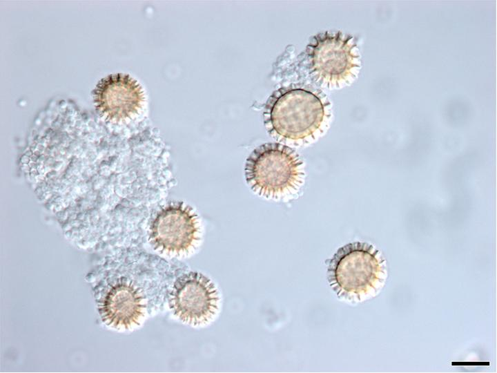 Bauerago vuyckii is a species of fungi